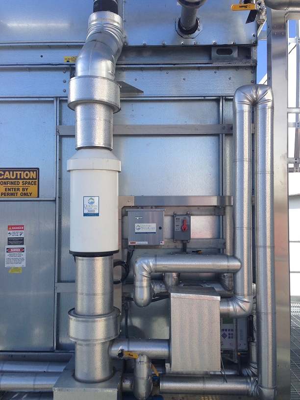 Dolphin WaterCare Installation